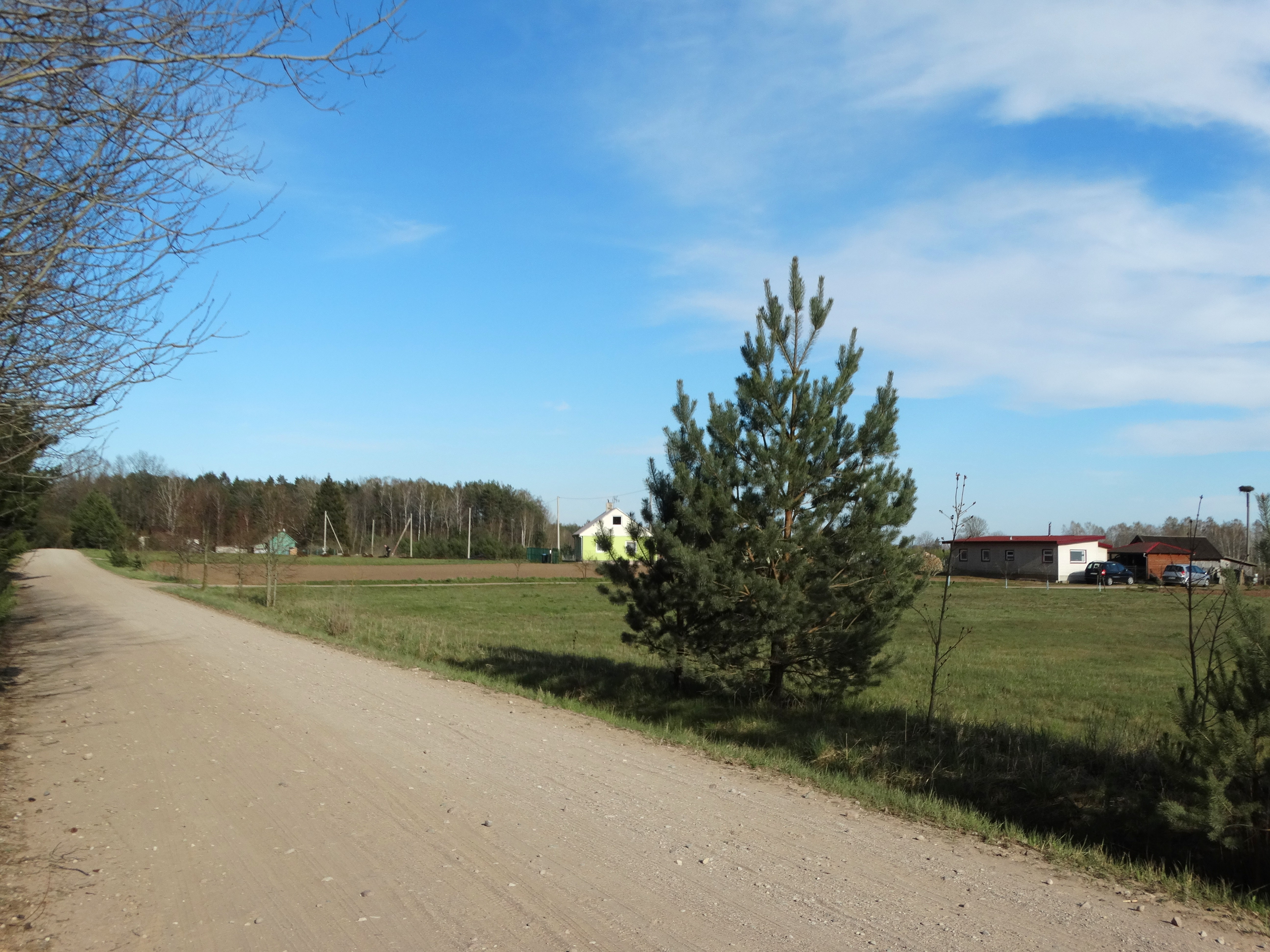 Staiginė, Tauragė district, Lithuania